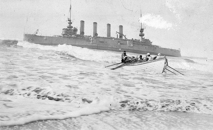 U.S. Naval Historical Center Photograph # NH 46156 "Coast Guard surf boat in action near the wrecked USS Milwaukee, 13 Jan. 1917" U.S. Coast Guard surf boat in action, during the removal of crewmen from USS Milwaukee (Cruiser # 21) after she was wrecked at Samoa Beach, near Eureka, California, 13 January 1917. Note the large number of men standing on the grounded cruiser's decks.